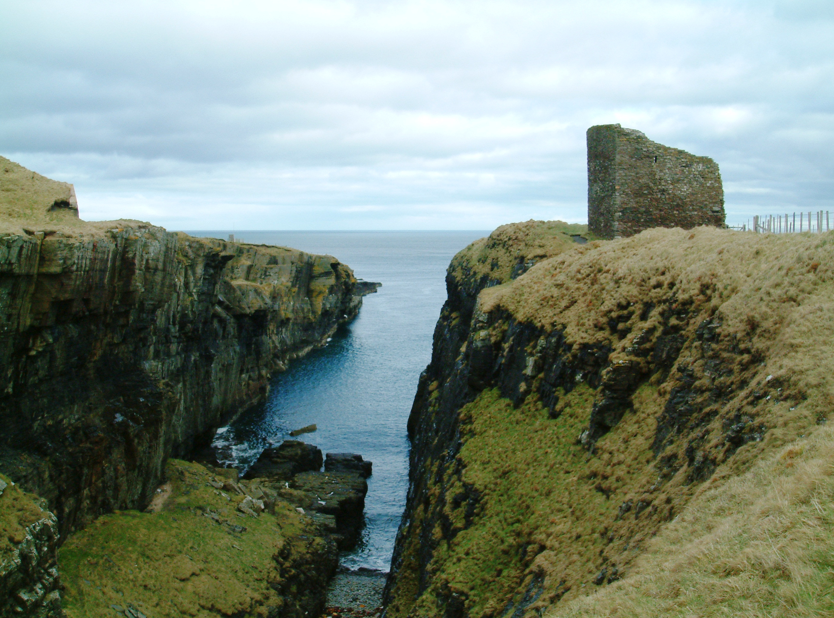 A picture of the Old Castle of Wick.